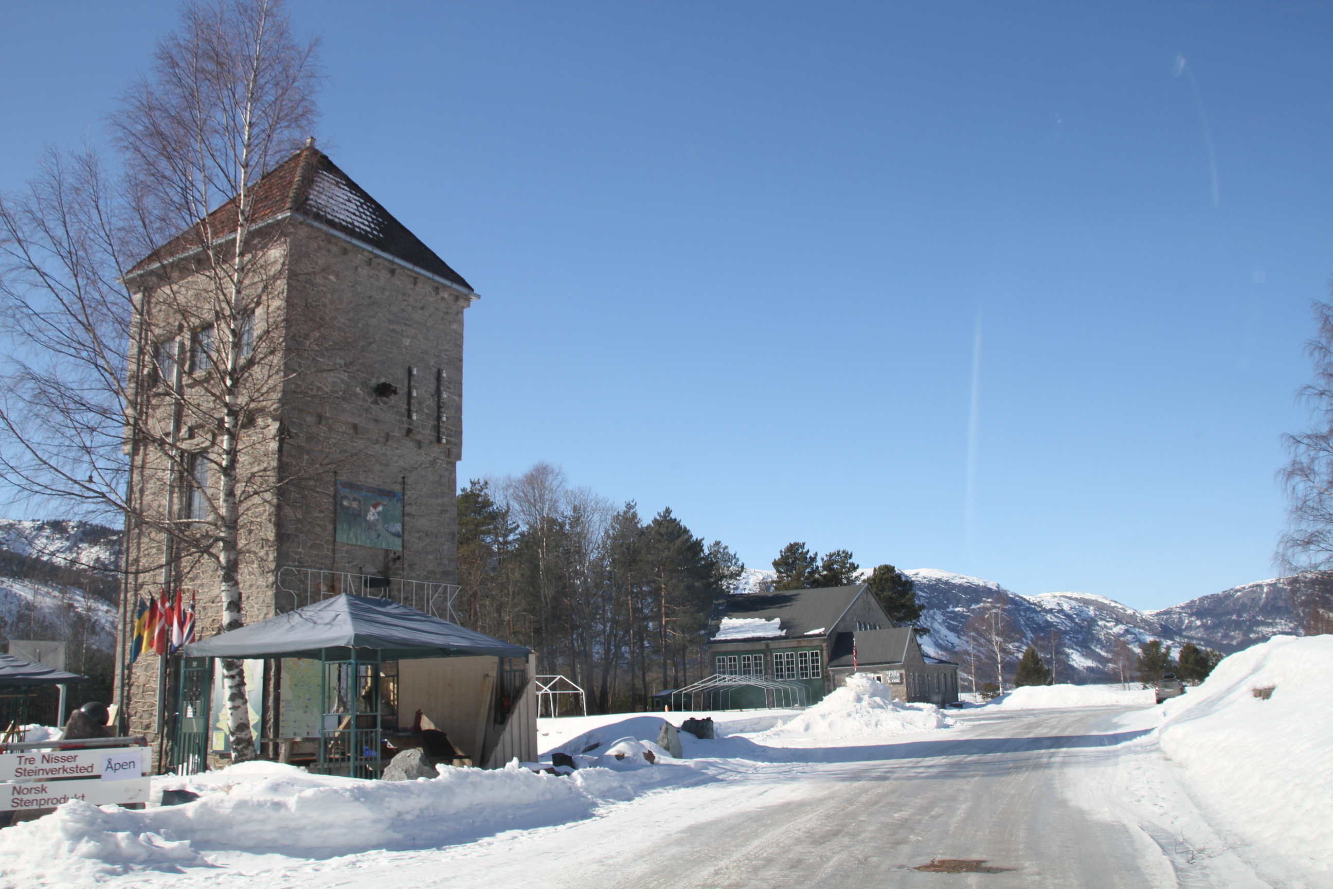 Image from the Treungen township, administrative center of the Nissedal municipality, Telemark county - Norway